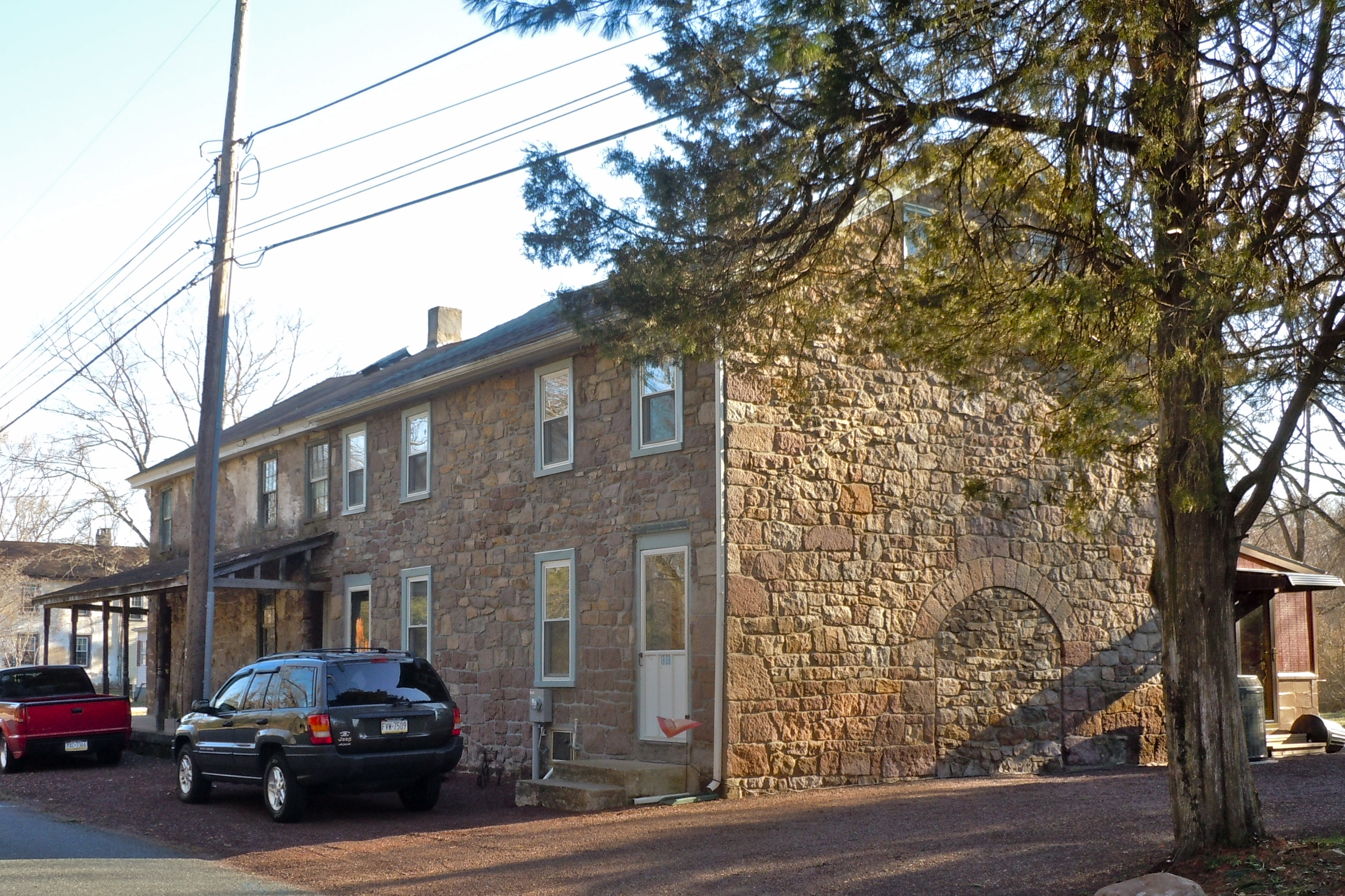 Parker's Ford on the NRHP since March 17, 1983. On Old Schuylkill Road near Parkerford in East Vincent Township, Chester County, Pennsylvania. Near the Schuylkil River and Spring City. Kind of a "wide spot in the road" Historic District, on an old bypassed road. Nice stone buildings. These are the former stables of the Parker Ford tavern.